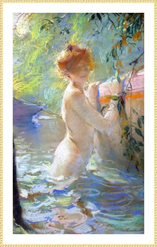 Transparences